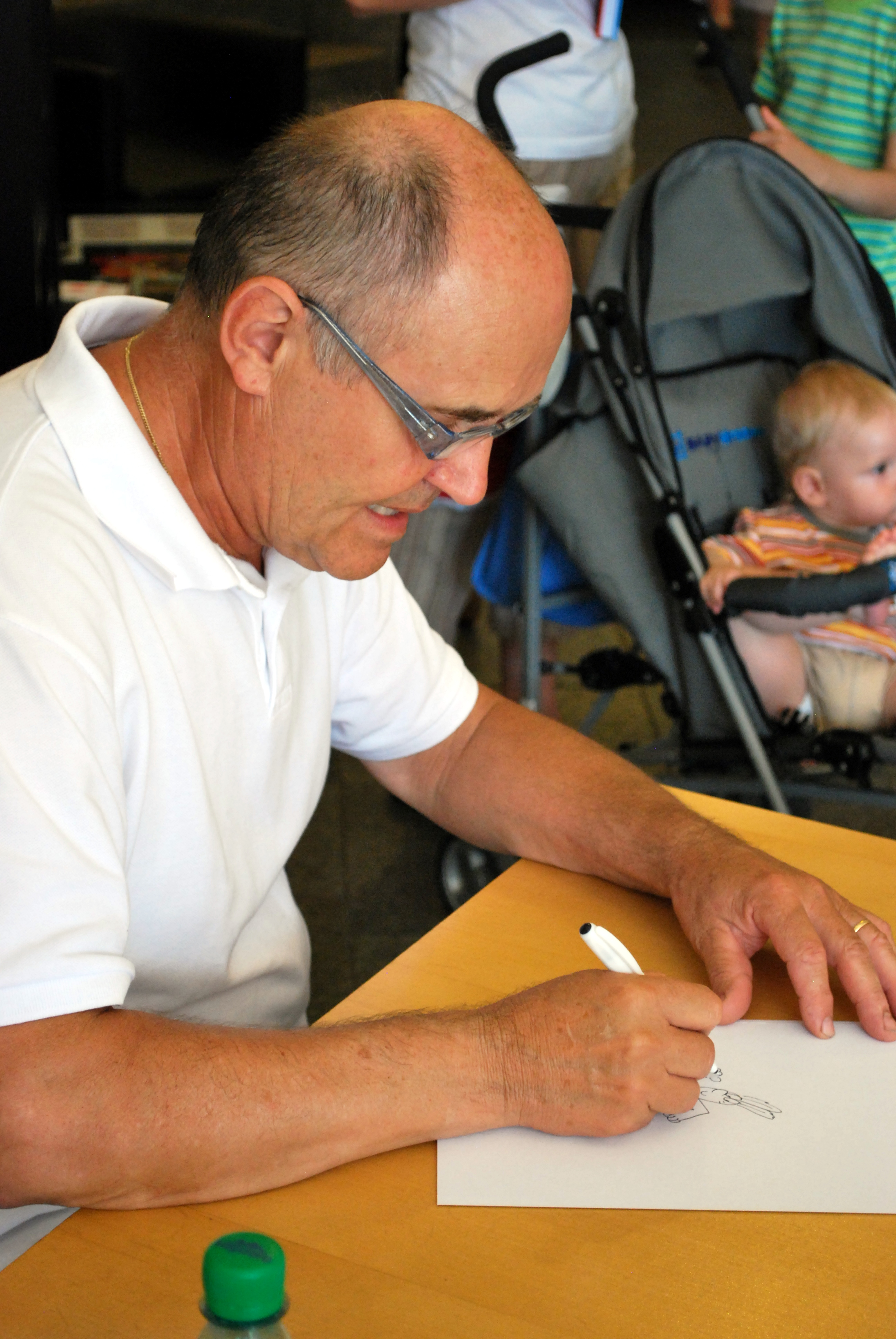 Czech illustrator and author of Čtyřlístek Jaroslav Němeček on the book signing in Písek, Czech Republic.